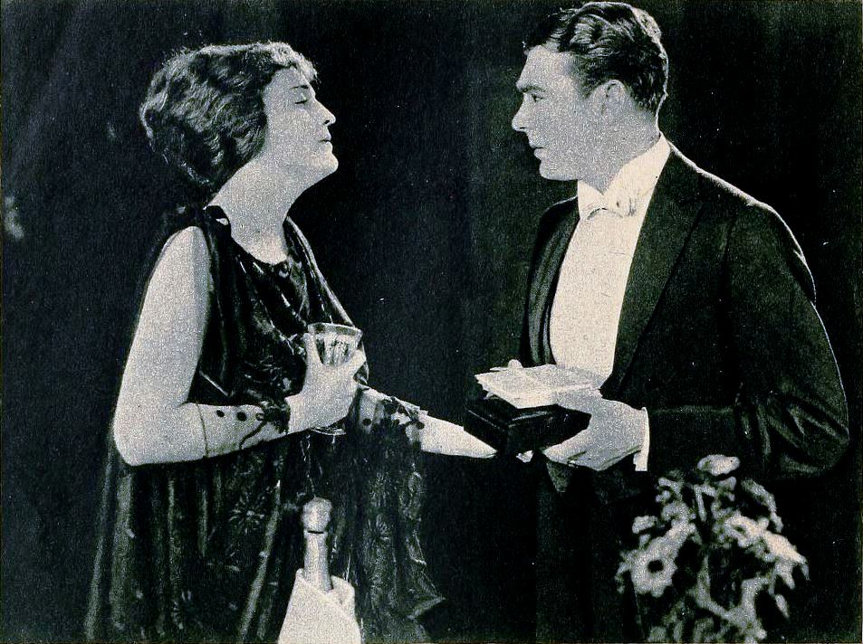 Still from the American silent film The Gay Lord Quex (1919) with Naomi Childers and Tom Moore, page 35 of the December 1919 Shadowland. "'And so,' the Duchess was saying, 'our chapter is ... almost over!'"